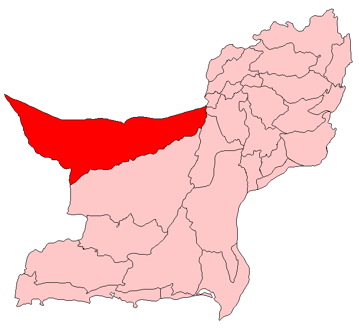 Map showing location of Chagi District within Pakistan